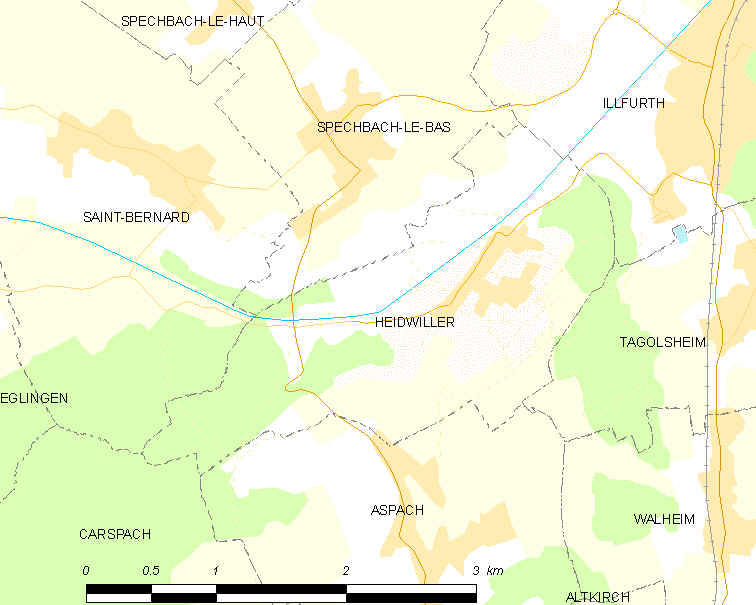 Map of French municipality